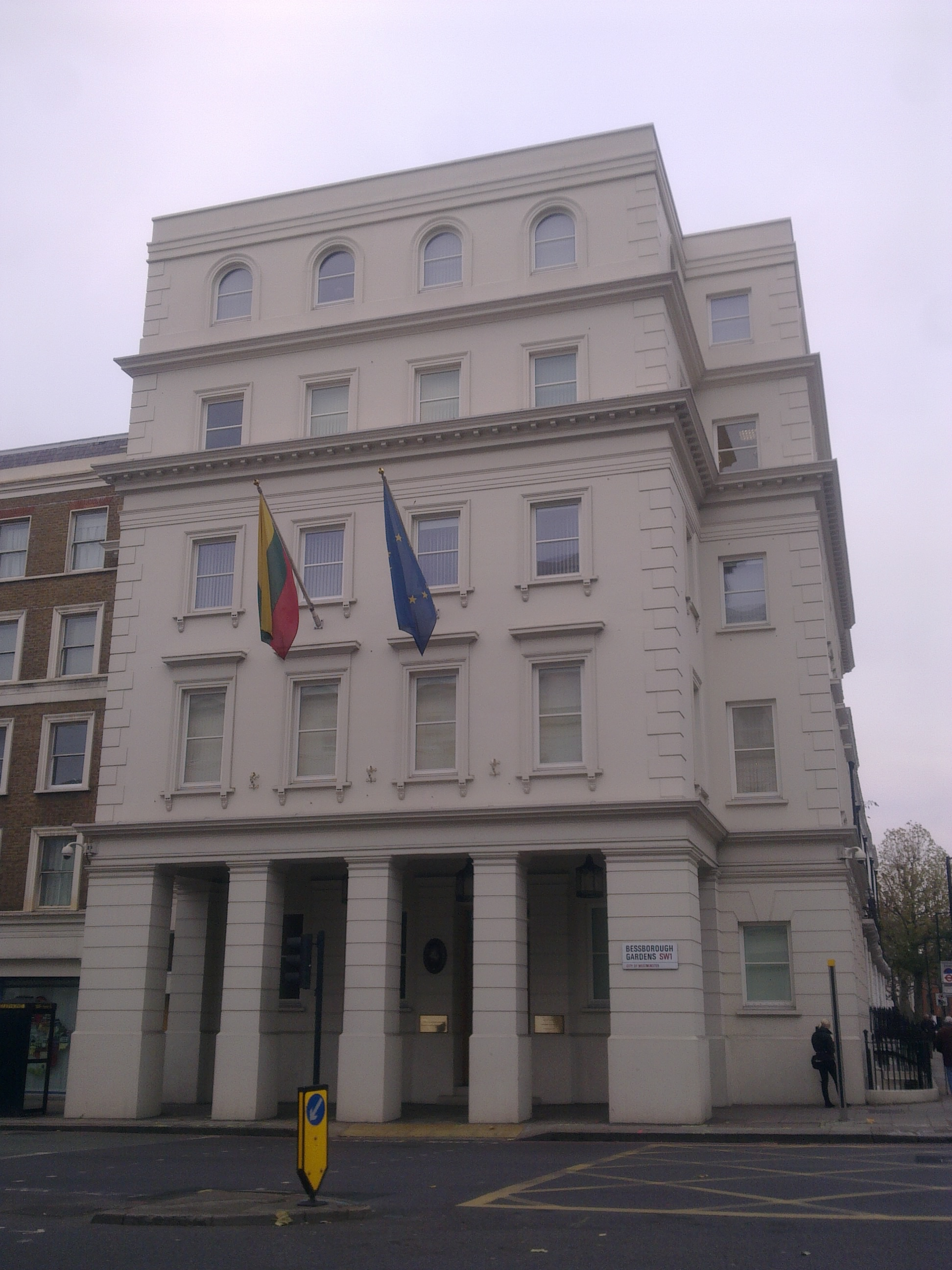 Embassy of Lithuania in London 1